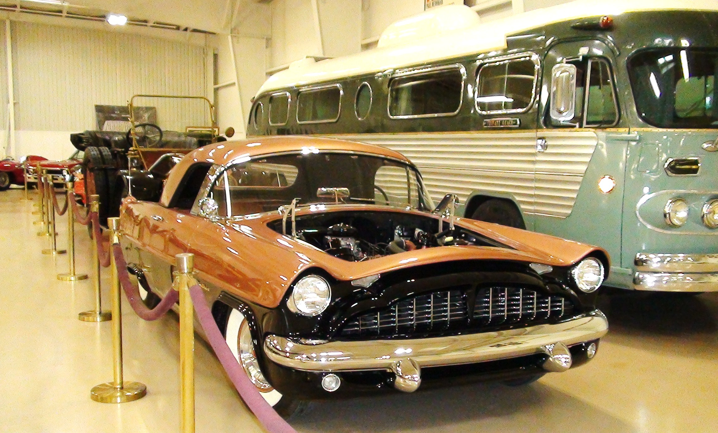 Packard Panther Daytona showcar (1954) with supercharged straight eight engine; one of five built, two with rear end adapted for 1955 taillights and only one with removable hardtop